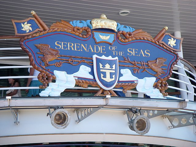 Wooden sign marking the Royal Caribbean International vessel, Serenade of the Seas.